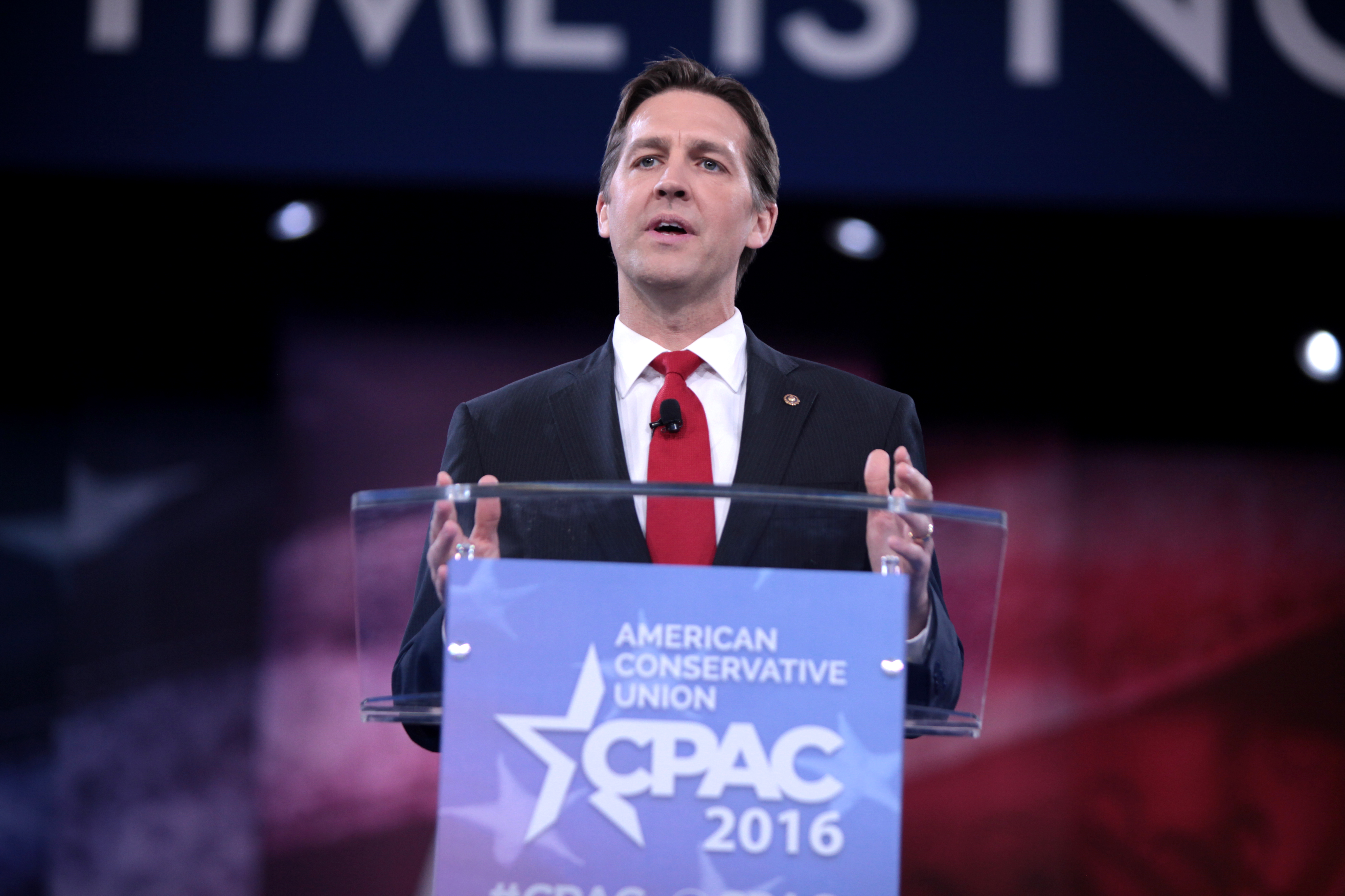 U.S. Senator Ben Sasse of Nebraska speaking at the 2016 Conservative Political Action Conference (CPAC) in National Harbor, Maryland.